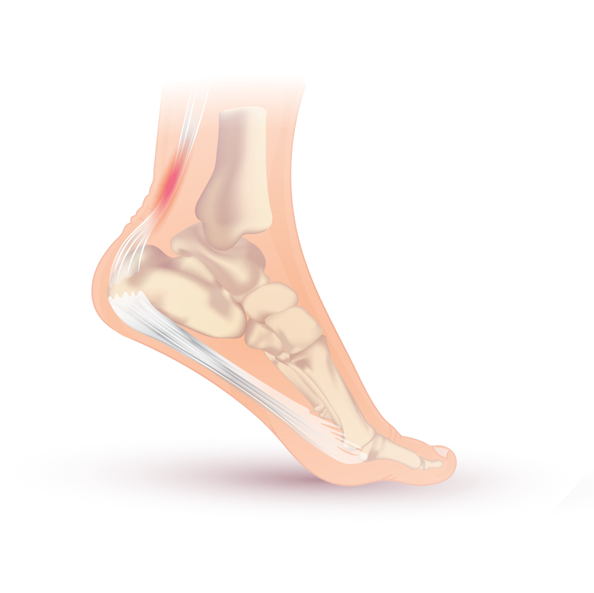 Achilles tendonitis